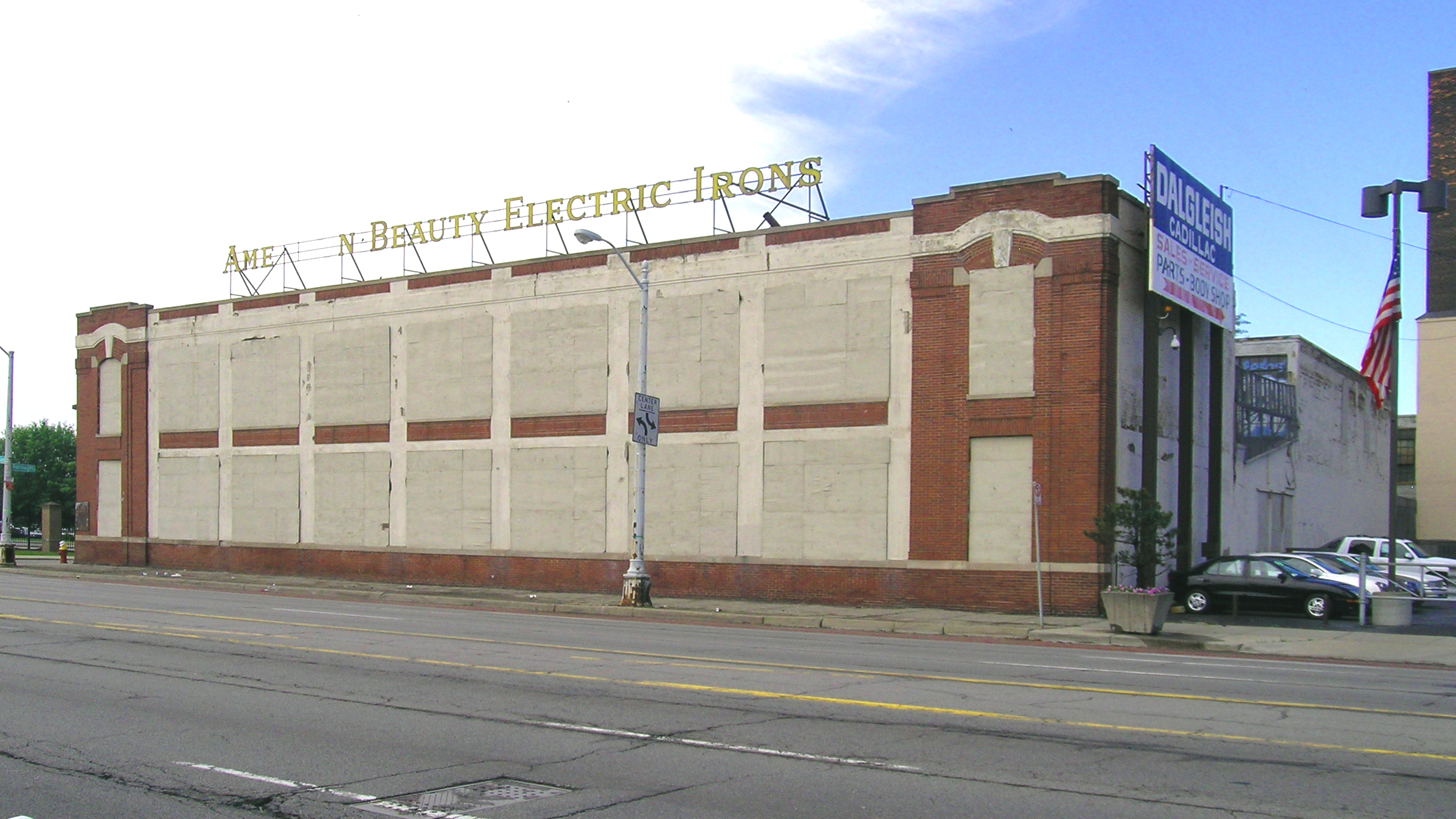 American Beauty Iron factory, Detroit, Woodward facade